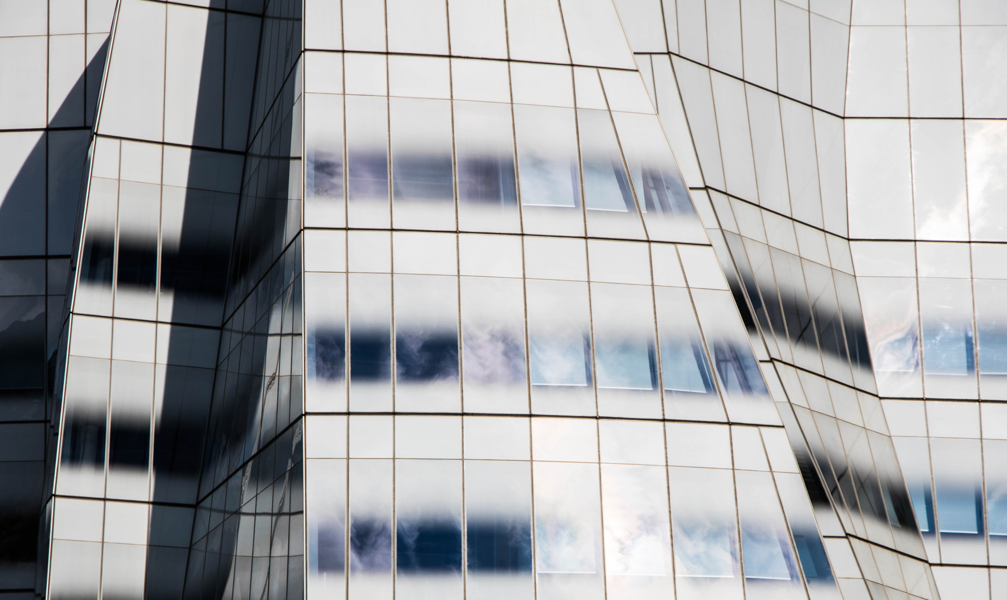 500px provided description: The IAC building seen from the High Line. [#blue ,#architecture ,#new york ,#building ,#purple]